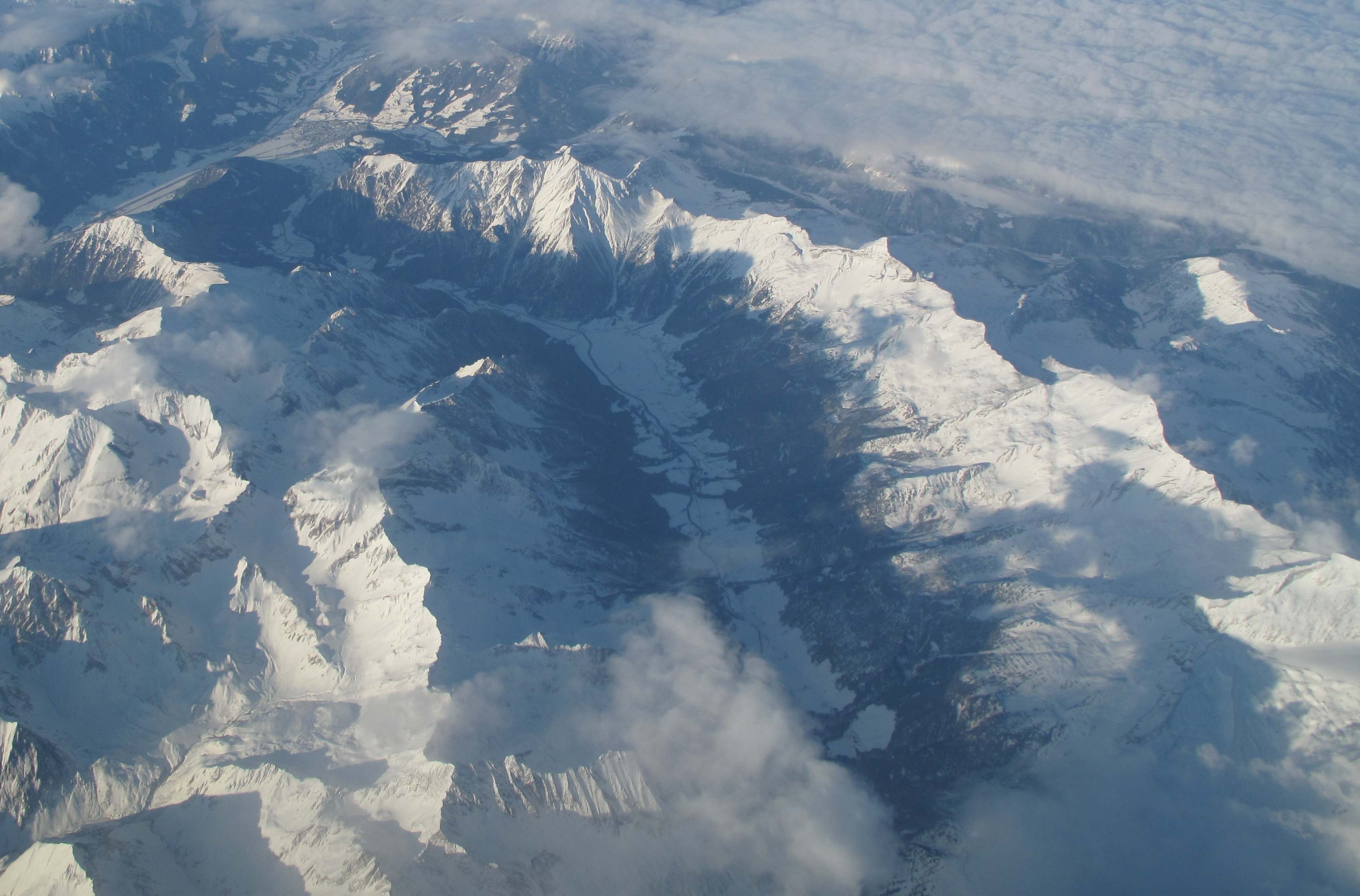 Aerial view of Val di Vizze (Pfitschtal) from east to west, with Vipiteno (Sterzing) on the upper left corner.